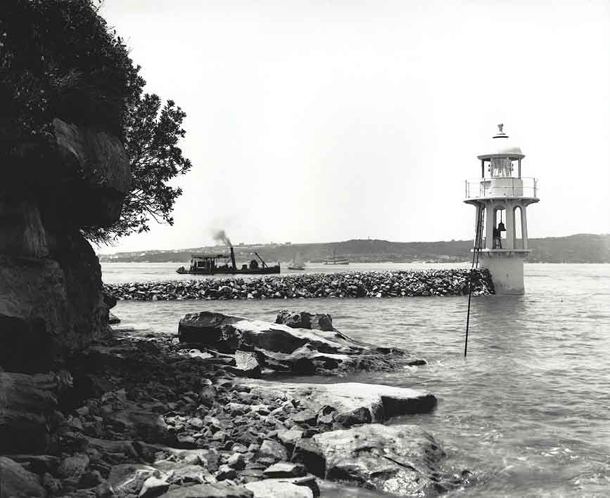 Historic view of Bradleys Head Lighthouse showing the Sydney Harbour Trust work boat Aurora in the background Digital ID: 9856_a017_A017000026 Rights: We'd love to hear from you if you use our photos. Many other photos in our collection are available to view and browse on our website using Photo Investigator.